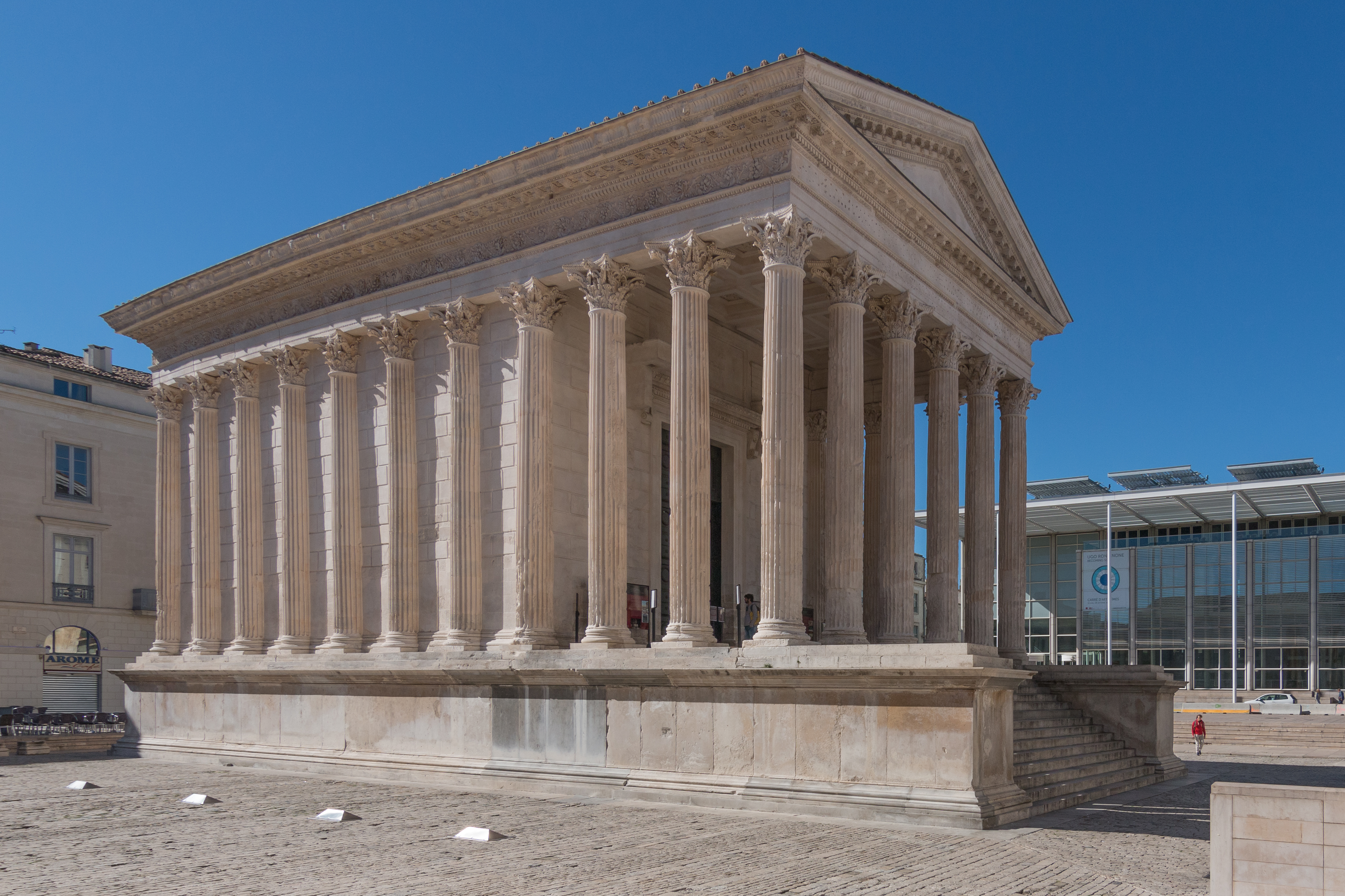 The roman temple called Maison Carrée in Nîmes (Gard, France)